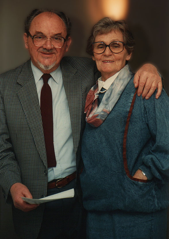 Picture of former Danish prime minister Anker Jørgensen and Mrs. Ingrid Jørgensen in Danish Parliament, Christiansborg, 1990. Copyright holder: Morten Andersen, Amsterdamhusene 55, 3600 Frederikssund, Denmark